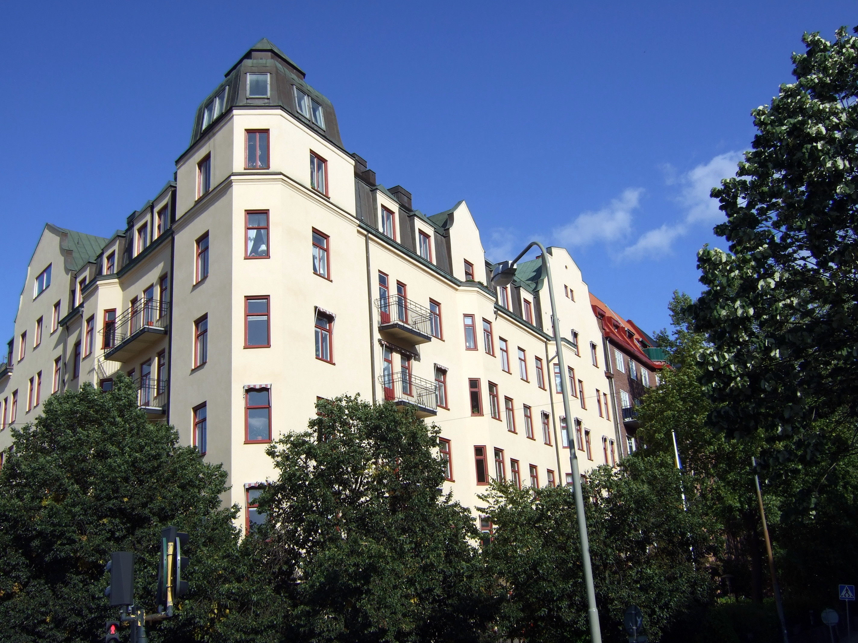 Birkagården, Stockholm, Sweden